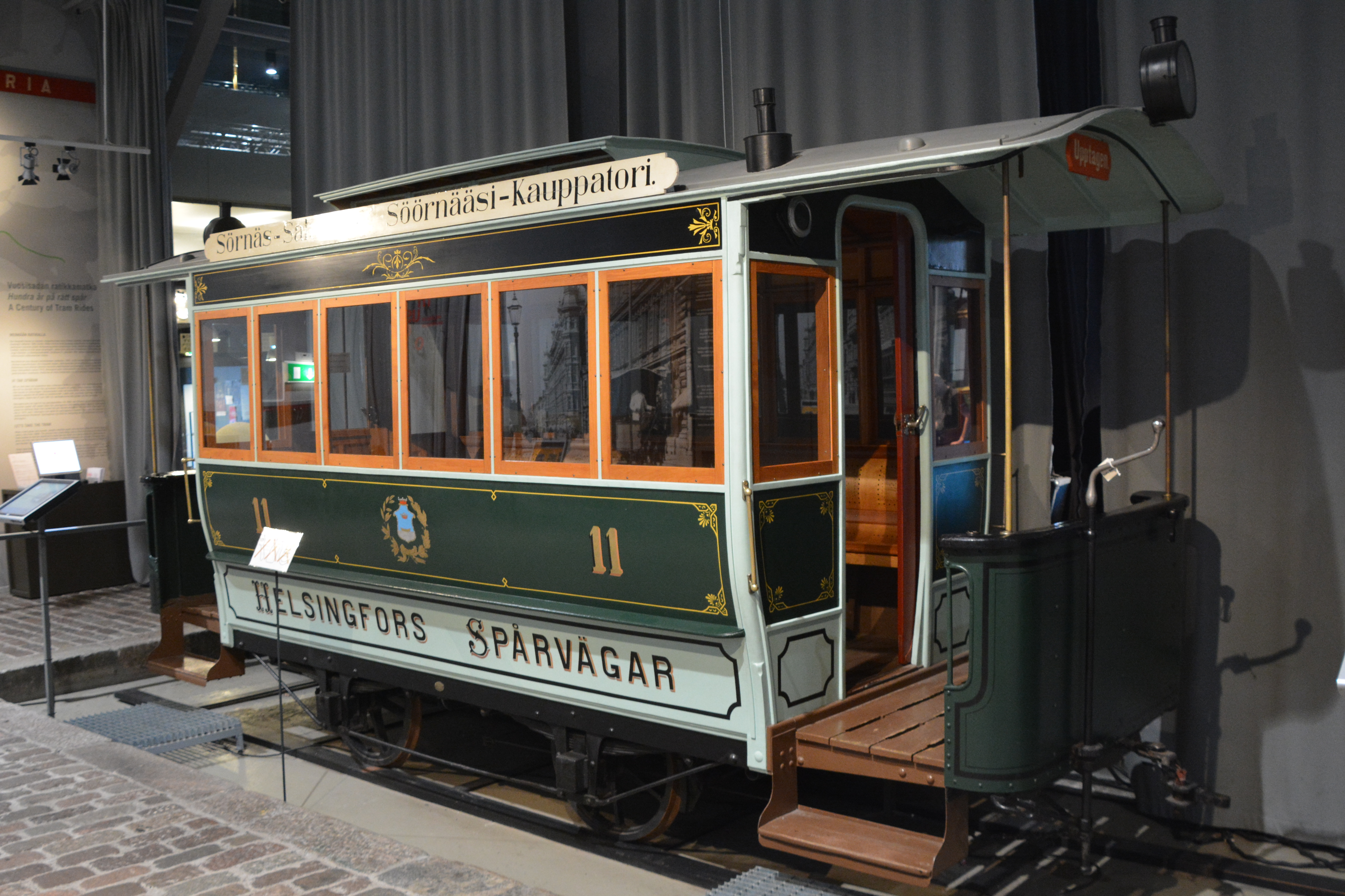 Helsinki tram museum , Horse tram, HRO 11